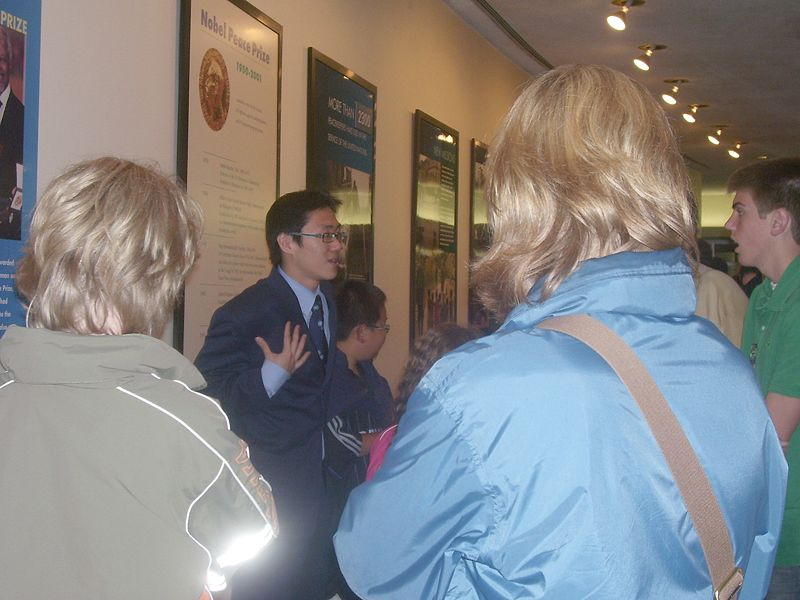 (Original text: United Nations male tour guide (center).)